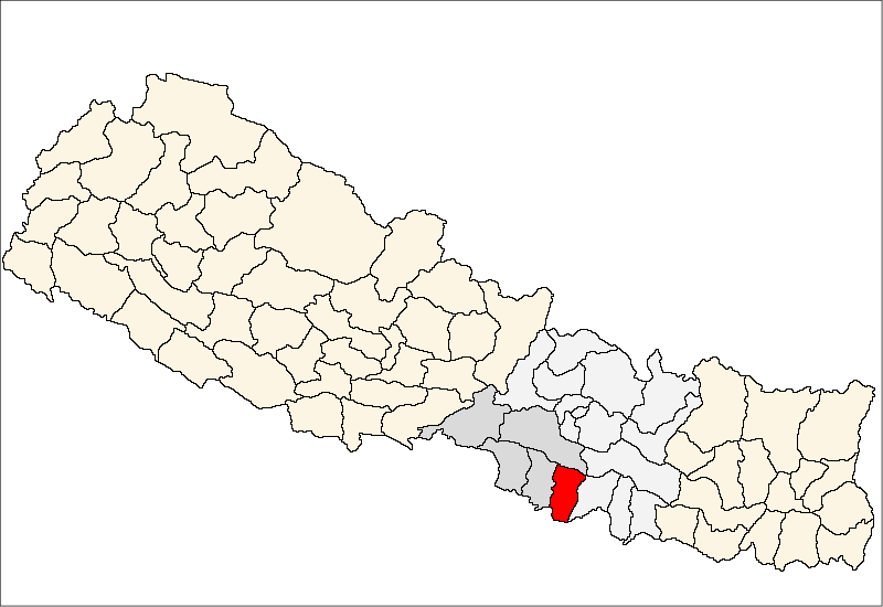 FrenchCarte de localisation dudistrict de Rautahat(wp-FR),au Népal (wp-FR).EnglishLocation map ofRautahat District(wp-EN),in Nepal (wp-EN).